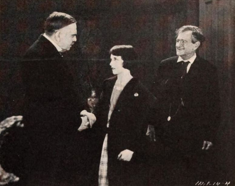 Still from the American drama film The Lamplighter (1921) with Shirley Mason and two unidentified actors, on page 83 of the April 16, 1921 Exhibitors Herald.